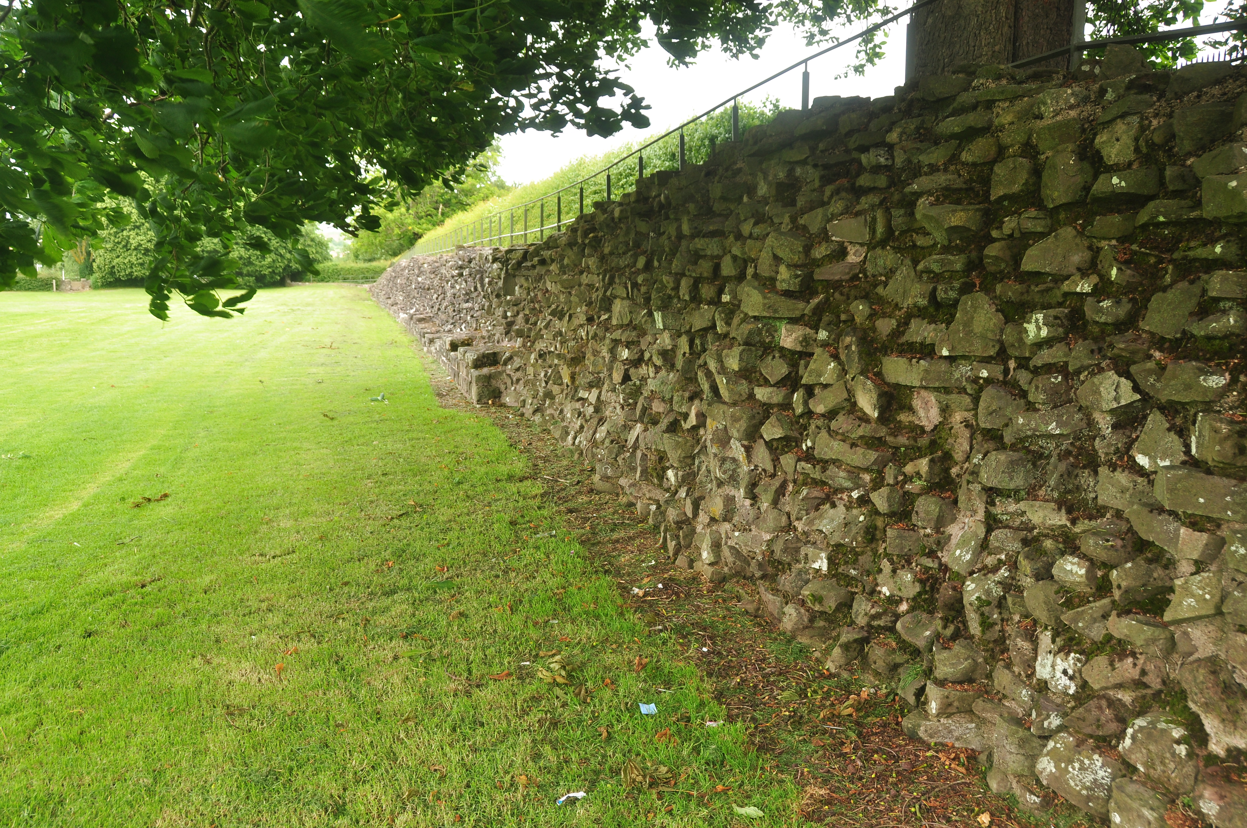 Roman wall at Caerleon